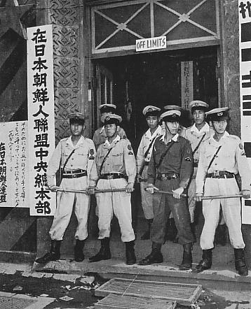 LKRJ Building that became off-limits